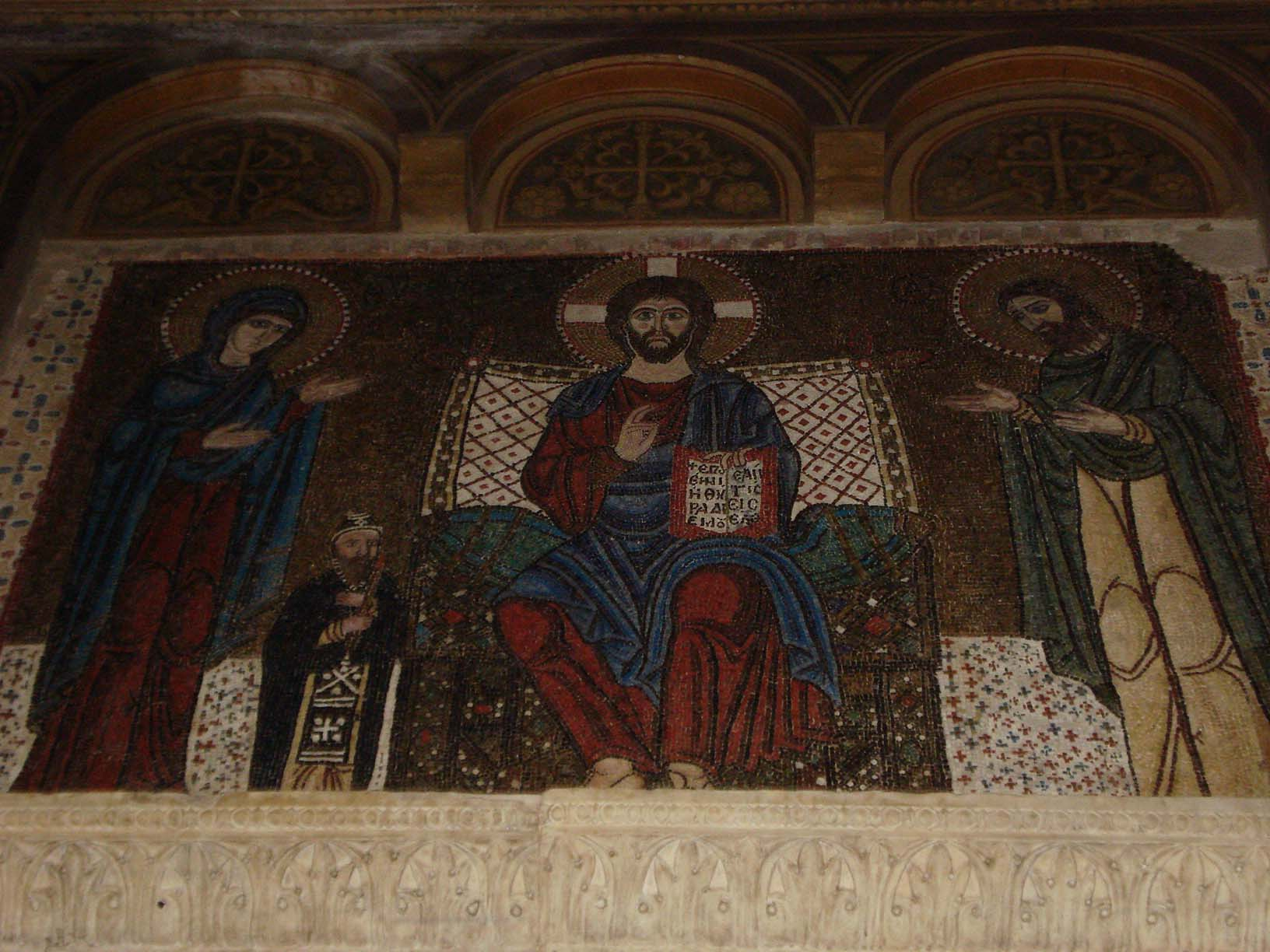 Deisis - icon over the entrance door